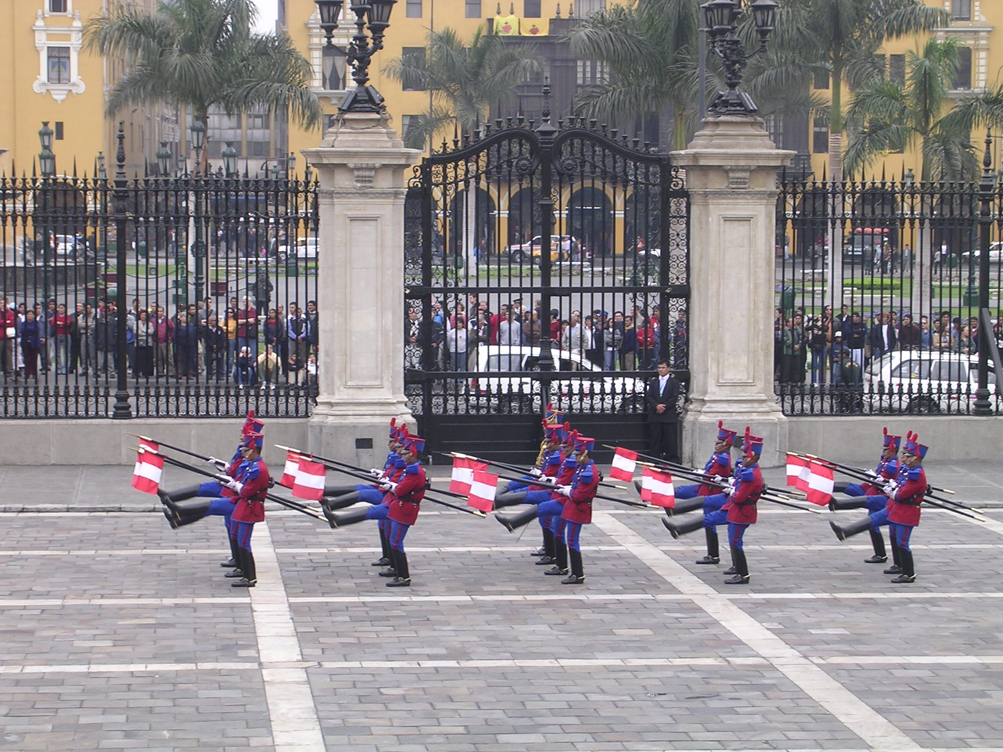 Changing of the Guards at the Presidential Palace in Peru (June 1, 2005).